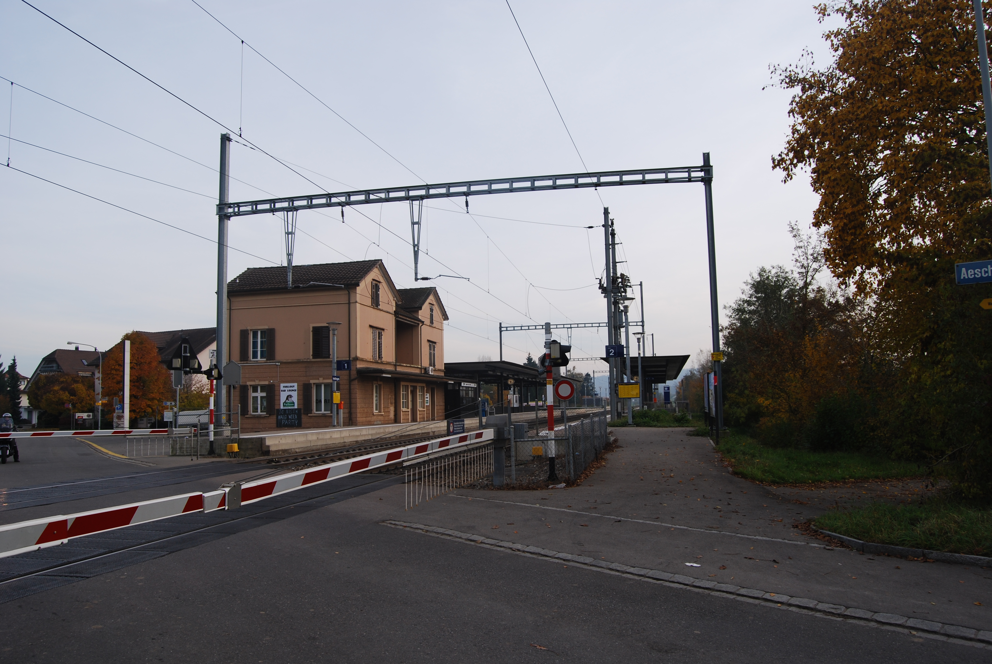 Train station of Hettlingen, canton of Zürich, SwitzerlandEsperanto: Stacidomo de Hettlingen, Kantono Zuriko, Svislando